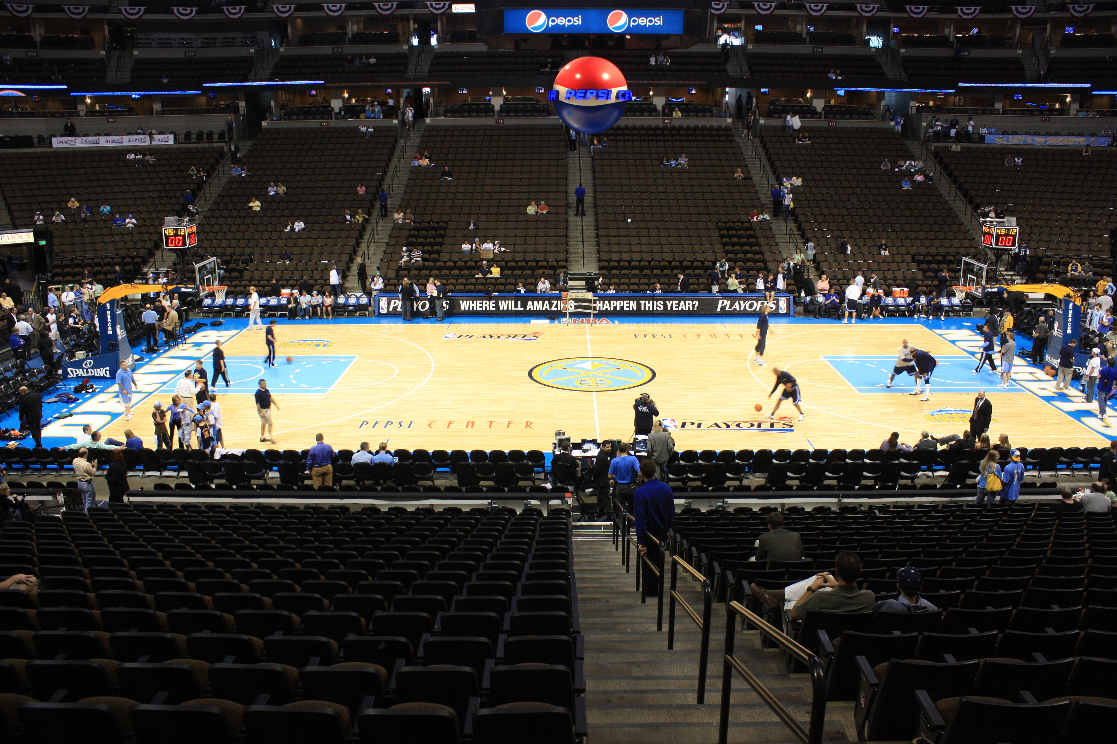 Several hours before Game 5 of the Denver Nuggets second round game against the Dallas Mavericks, which the Nuggets won 124-110.